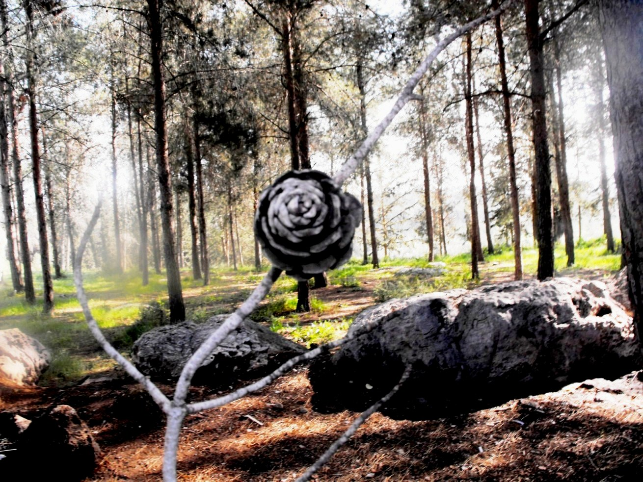 Plants of Israel